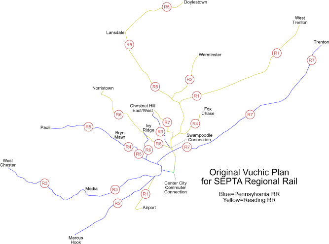 The original Vuchic plan for SEPTA Regional Rail